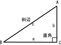 Right triangle